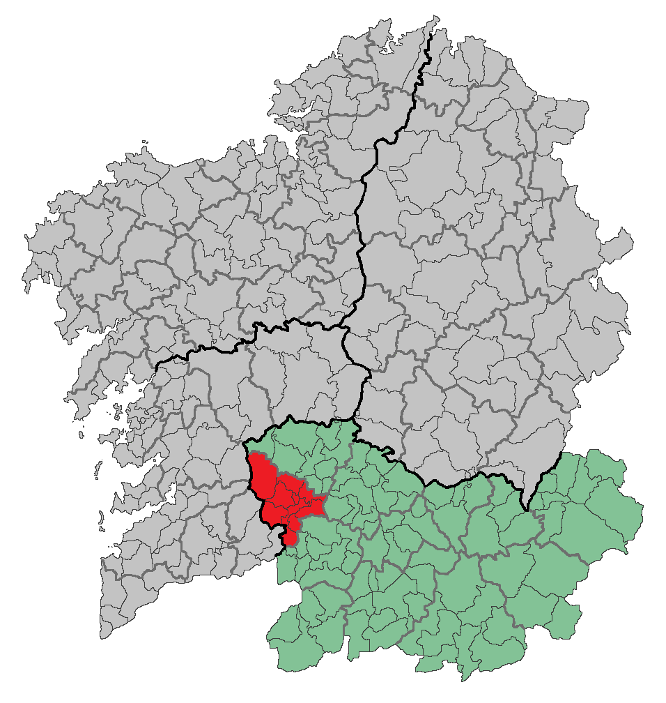 Region of Galicia (Spain)Based in: Image:Location of Betanzos.png Source: Designed by Leoplus. Original picture, designed by Caiser over a work made by Alyssalover.